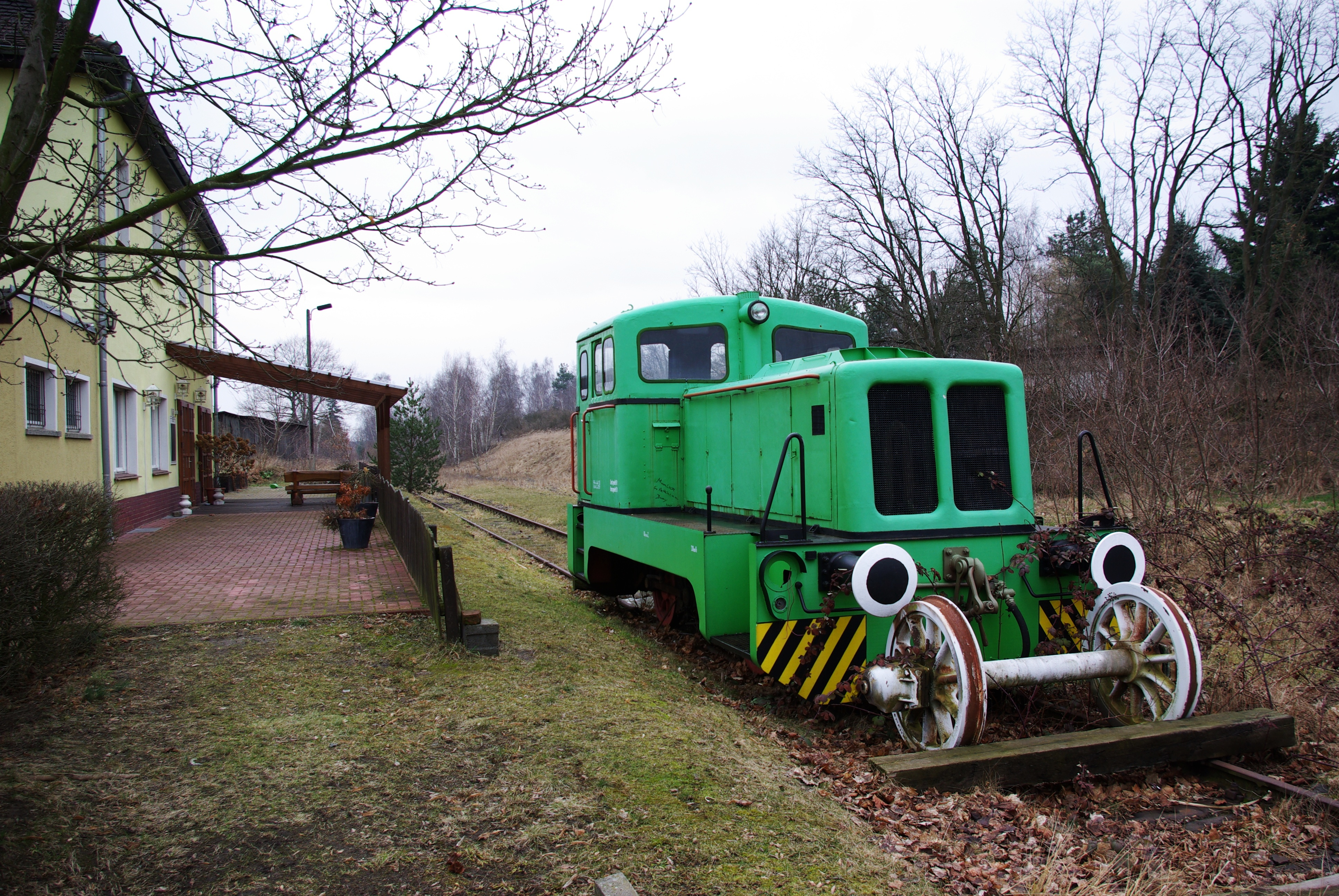 Görzke in the district of Potsdam-Mittelmark. The picture shows the former terminus of the Buckaubahn with an old diesel engine in place. The locomotive is a historical monument (geotags in the exif data).